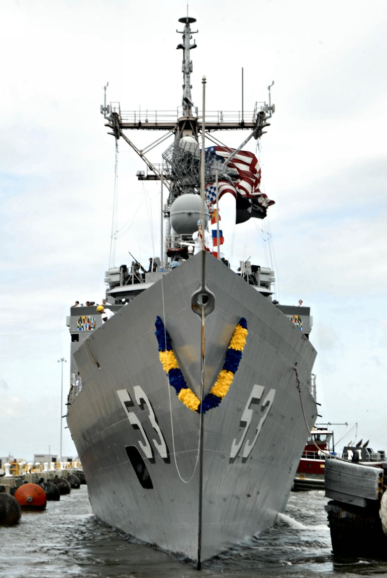 7 October 2009: Norfolk, Va. - The guided-missile frigate USS Hawes (FFG 53) arrives at Naval Station Norfolk after a six-month deployment in the Caribbean and western Atlantic Ocean supporting Operation Carib Venture. This marks Hawes' first counter narcotics deployment to the U.S. Southern Command area of responsibility. Hawes also participated in several multi-national exercises with maritime forces from Great Britain, Canada, the Netherlands, France, Trinidad and Tobago, Barbados and Colombia.